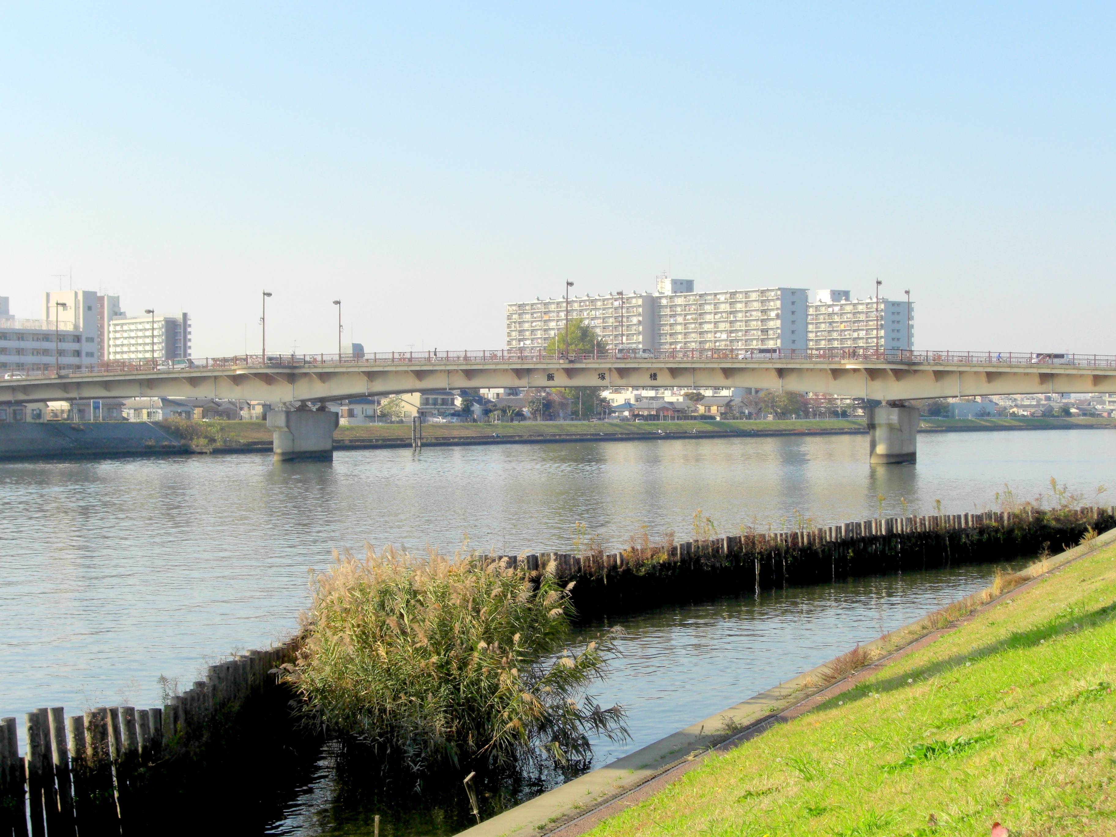 The Iiduka bridge which hangs over the Nakagawa-river(Tokyo).